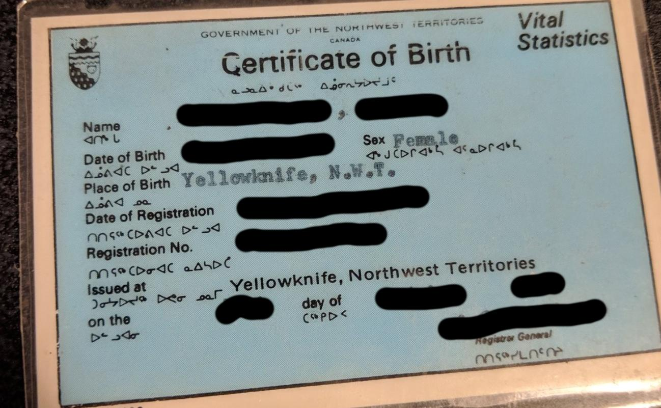 A short-form certificate of birth issued by NWT and bearing Inuktitut.